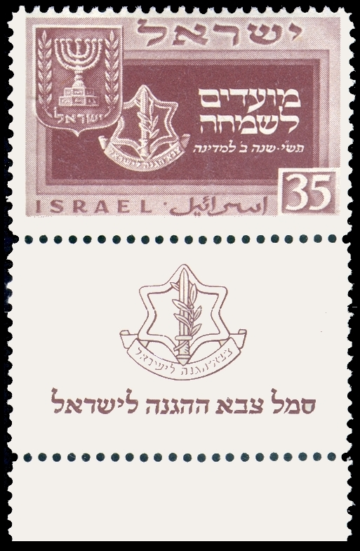 Joyous Festivals 5710 stamp - 35 mil. Inscription: "Year two of the State". Inscription on tab: "Insignia of the Israel Defense Forces".